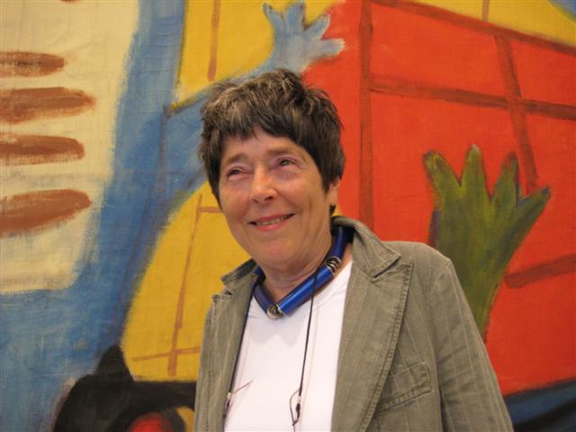 Portrait of Willemijn Stokvis.